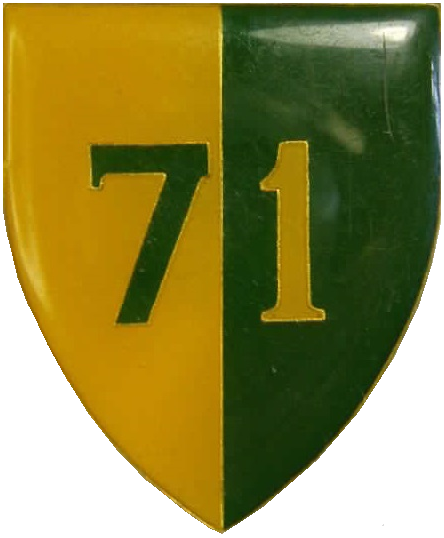 SADF era 71 Brigade emblem